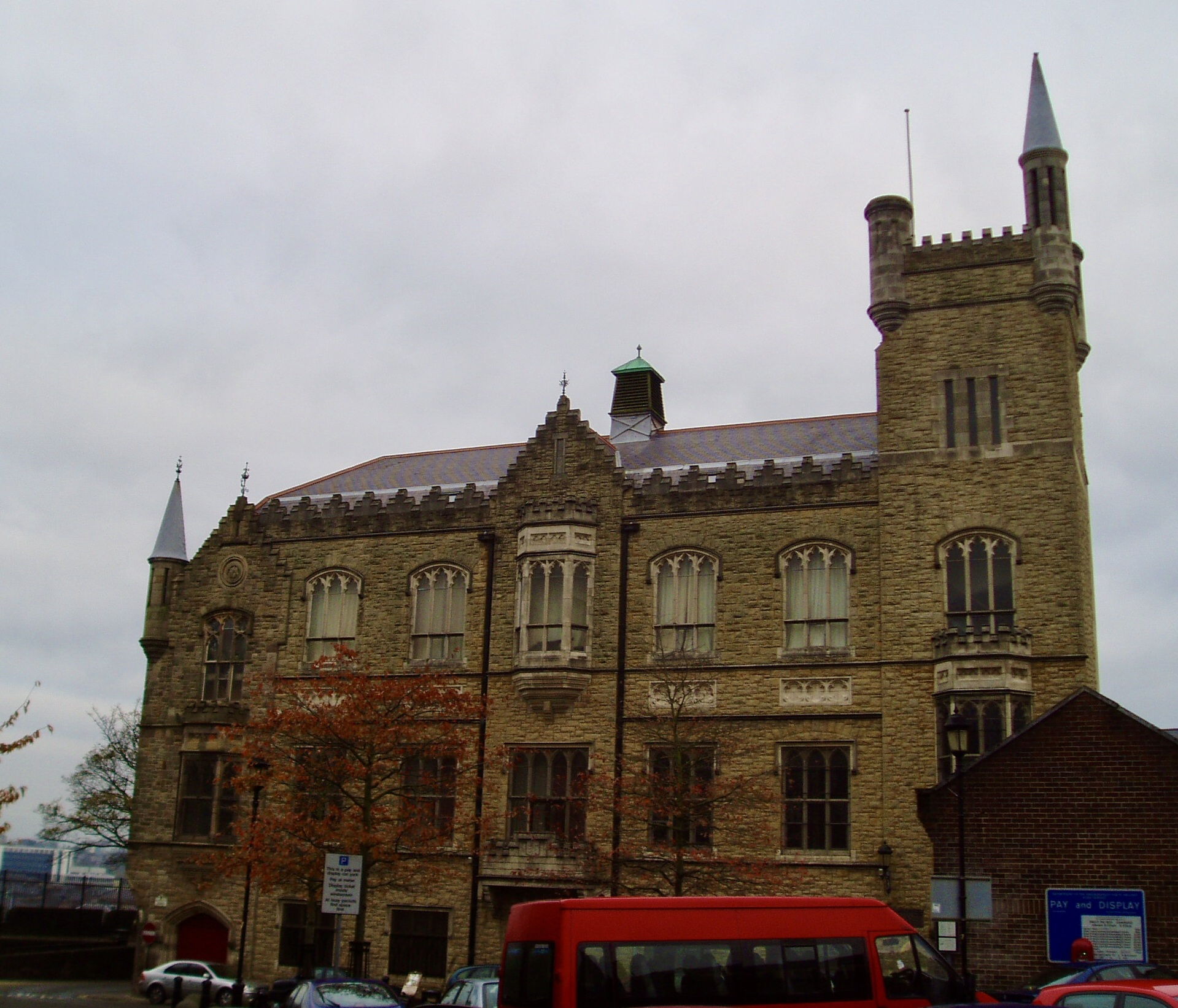 Photo of the Apprentice Boys of Derry Memorial Hall.